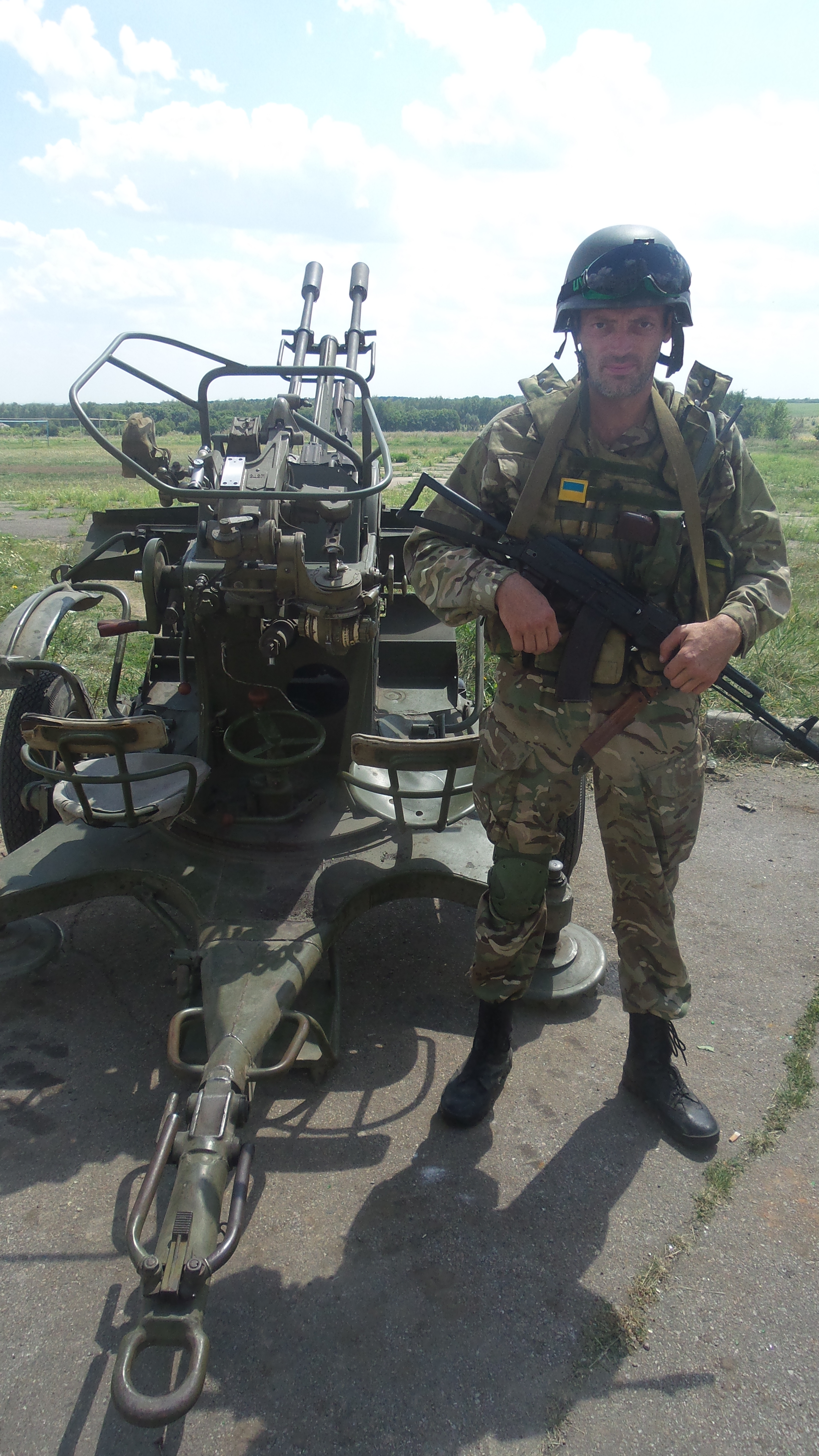 Battalion "Donbas" in Popasna, Lugansk region